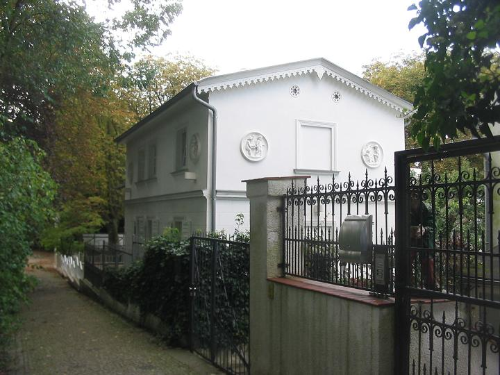 Listed residential building, created in 1860 , beside the historic restaurant „Wirtshaus Schildhorn“. Schildhorn (german for: shieldhorn) is a headland in the river Havel, situated in the protected area Grunewald in the homonymous quarter Grunewald of Berlins borough Charlottenburg-Wilmersdorf, Germany.